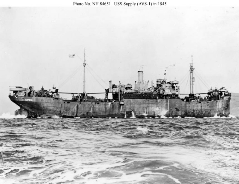 USS Supply (AVS-1)